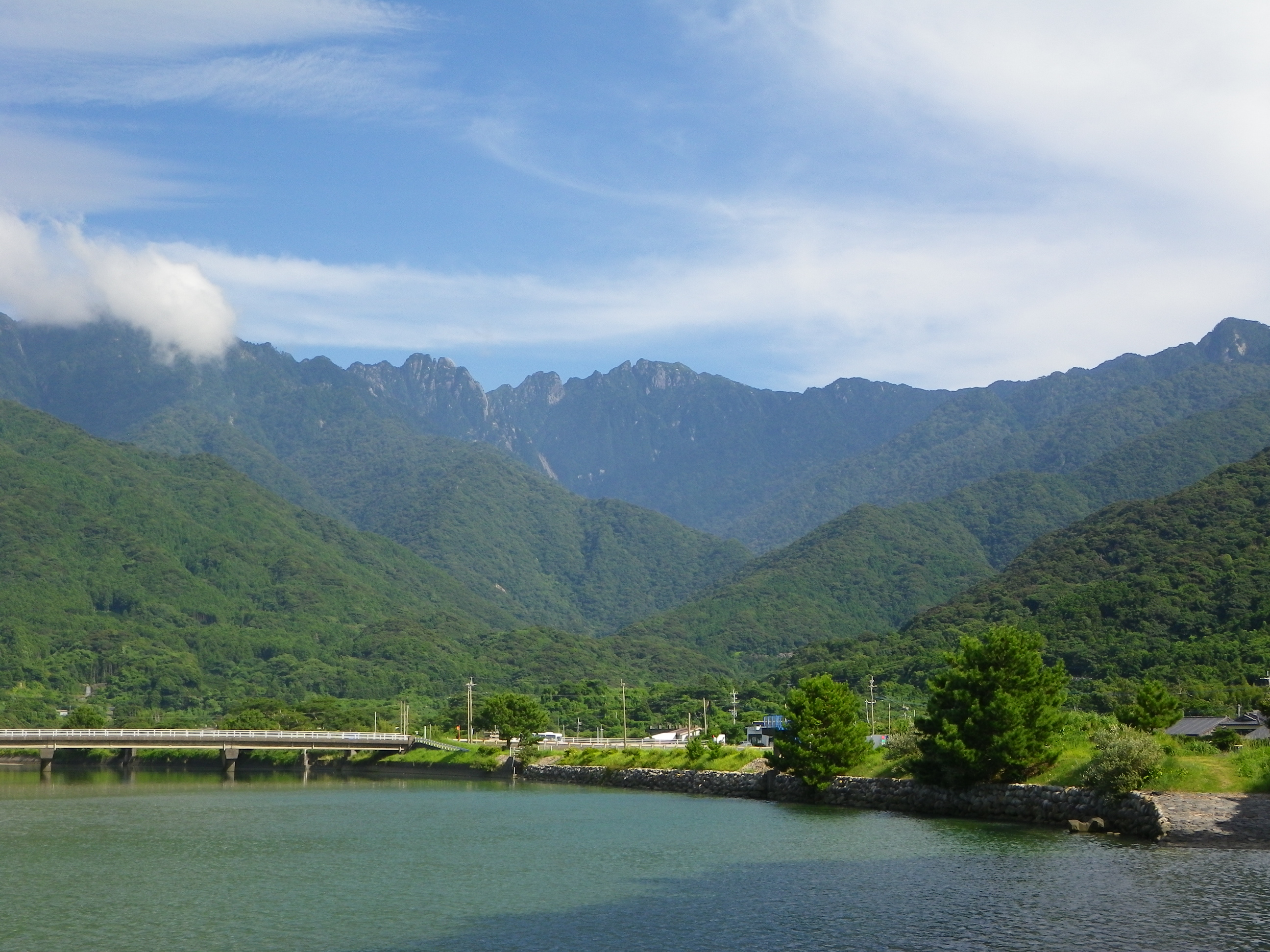 Mount Nagata (Nagatadake) as seen from Nagata, Yakushima